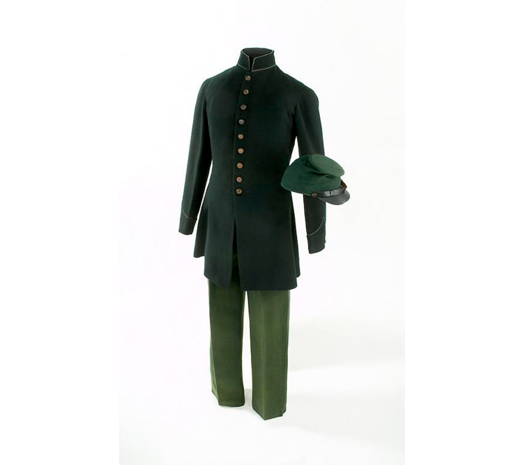 Uniform and hat of soldiers of the 1st Regiment of U.S. Sharpshooters, better known as Berdan's Sharpshooters. acket of army wool dyed a distinctive green color. Green wool forage cap with leather trim. Frock coat of green wool with brass buttons were later replaced with hard, black rubber buttons to prevent reflection from the light. The Smithsonian’s National Museum of American History Collection.